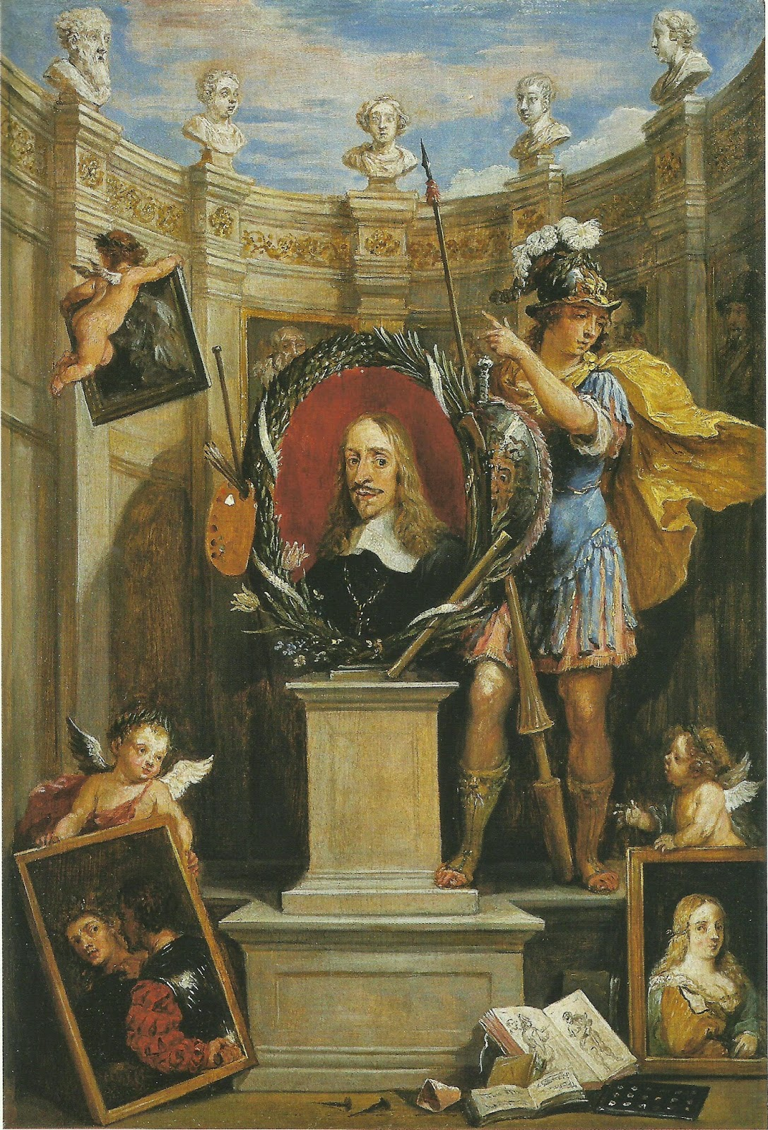 Frontispiece for the Theatrum Pictorium, a catalog of 246 paintings in the collection of Archduke Leopold Wilhelm of Austria published in 1673